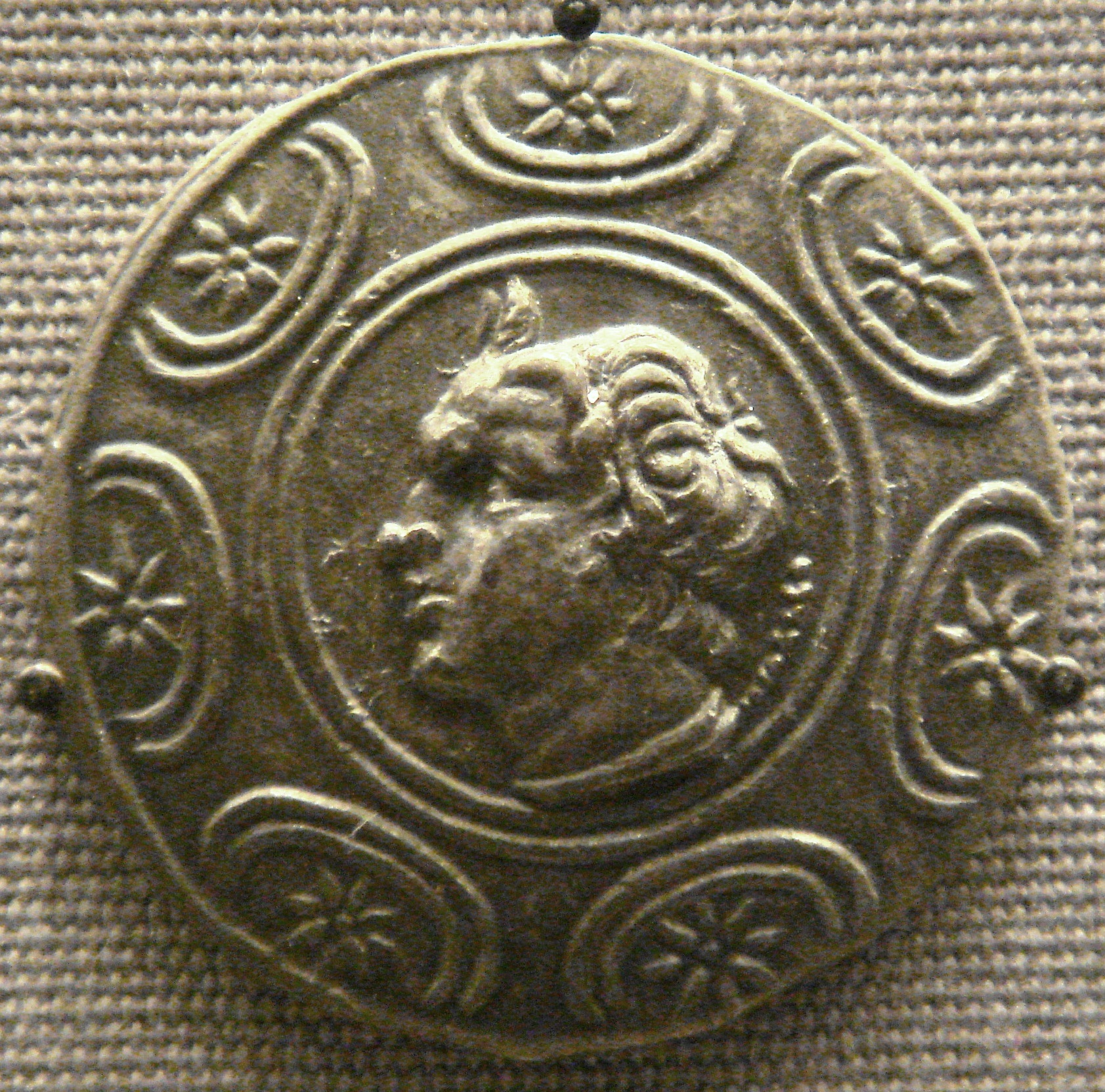 Coin of Antigonus_Gonatas, British_Museum. Macedonian shield, in centre of which, head of Pan horned, with pedum at shoulder.